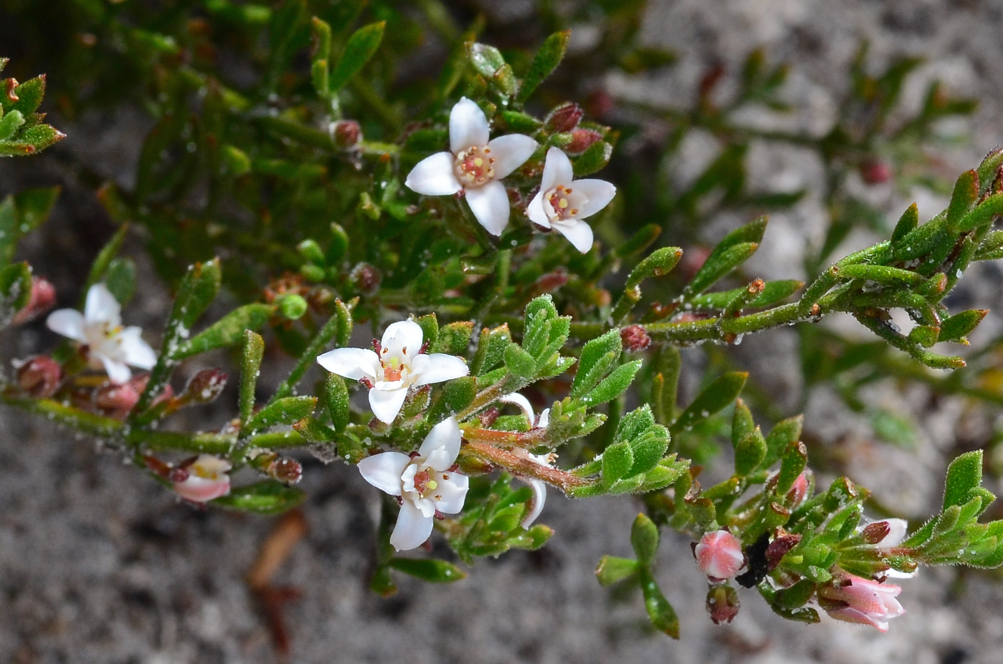 Boronia nana var. pubescens growing in the Little Desert National Park in far Western Victoria